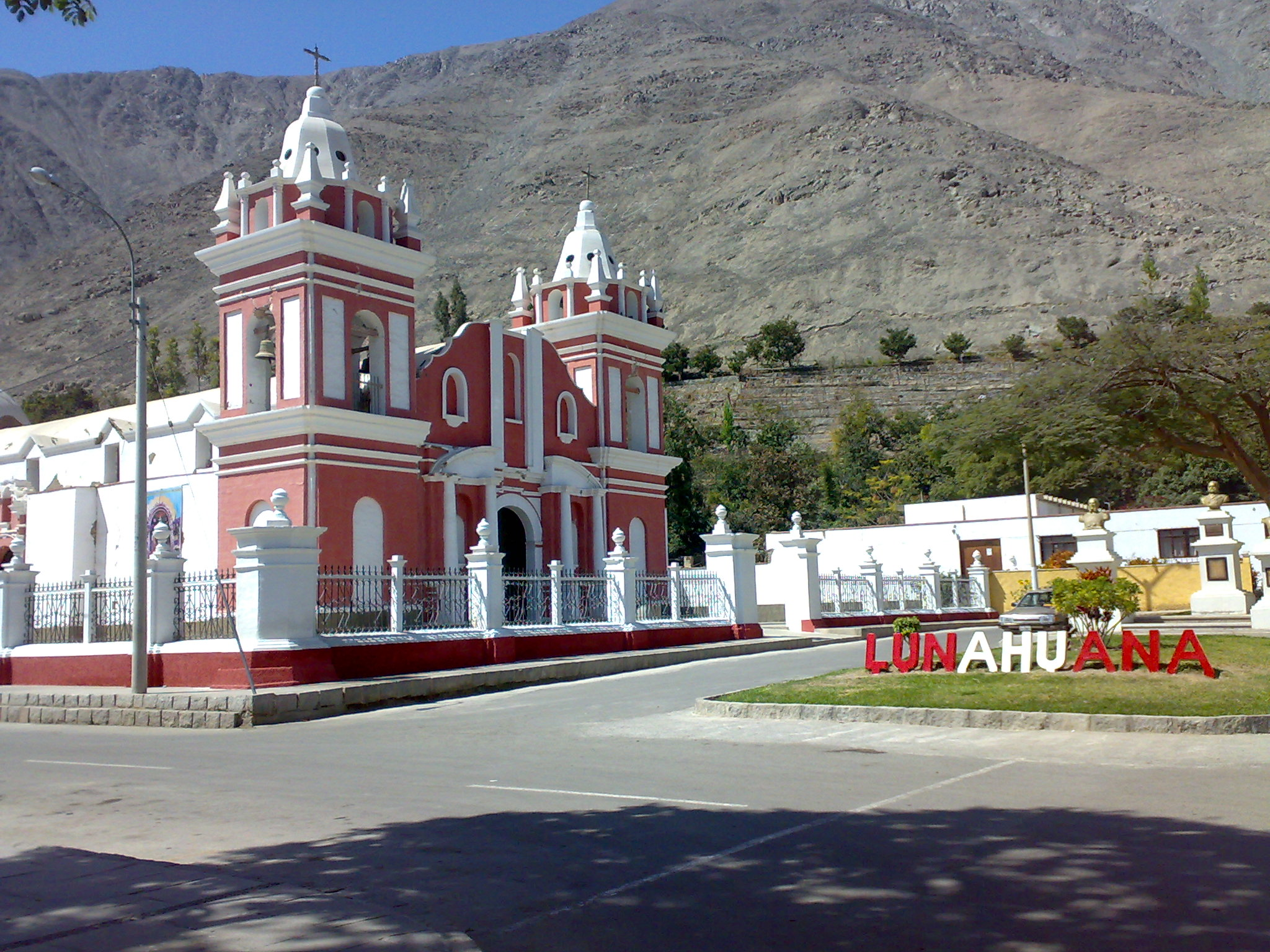 Lunahuana Principal Church.